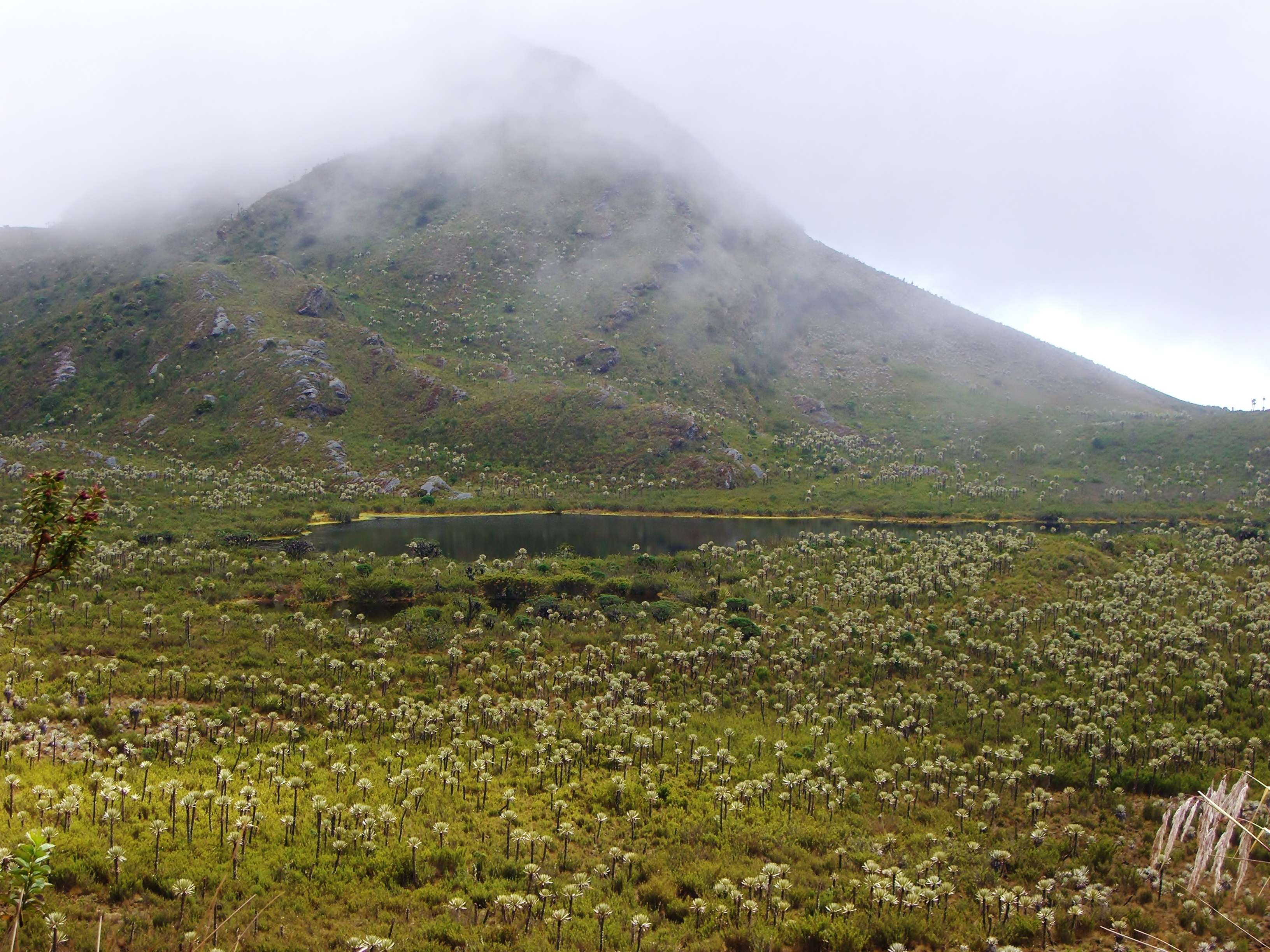 Laguna in the Parque Nacional Natural Chingaza